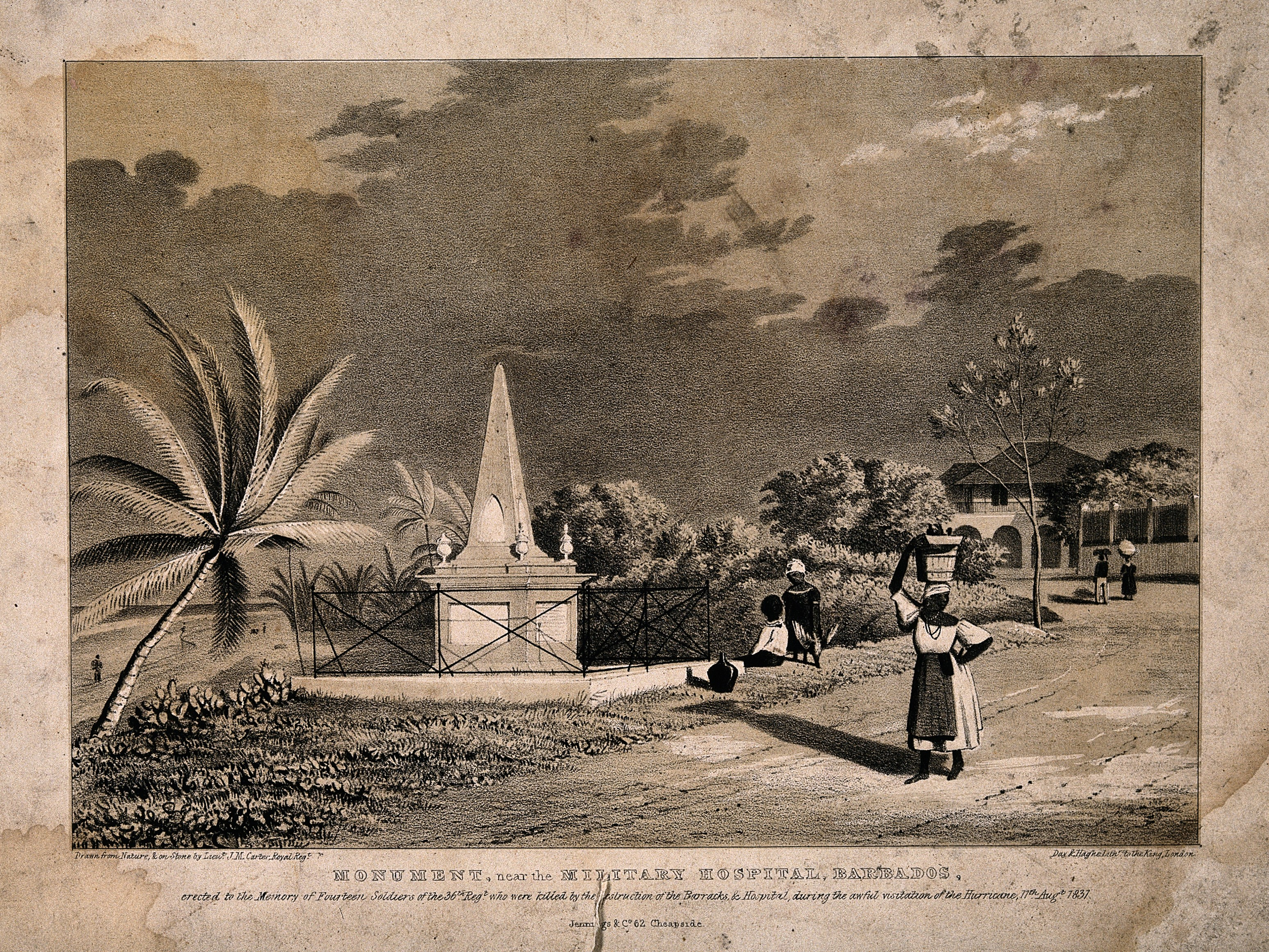 A monument positioned near the military hospital in Barbados, with passers-by. Lithograph by J. M. Carter after himself, c. 1837. Iconographic Collections Keywords: J. M. Carter; Day & Haghe.